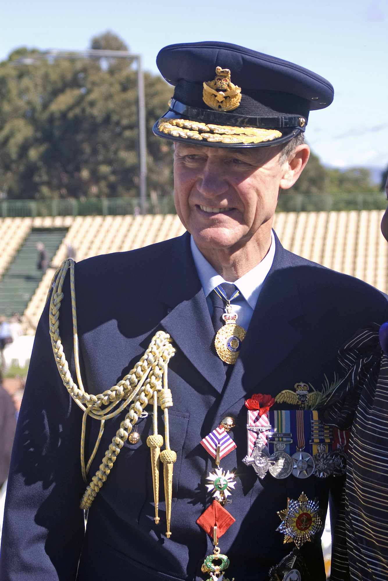 Air Chief Marshal Angus Houston AC, AFC at after the ANZAC Day National Ceremony at the Australian War Memorial in Canberra.